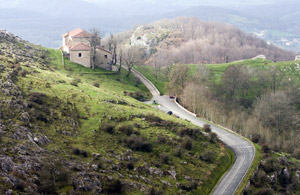 Panoramic view of the Sanctuary of Our Lady of Gold.